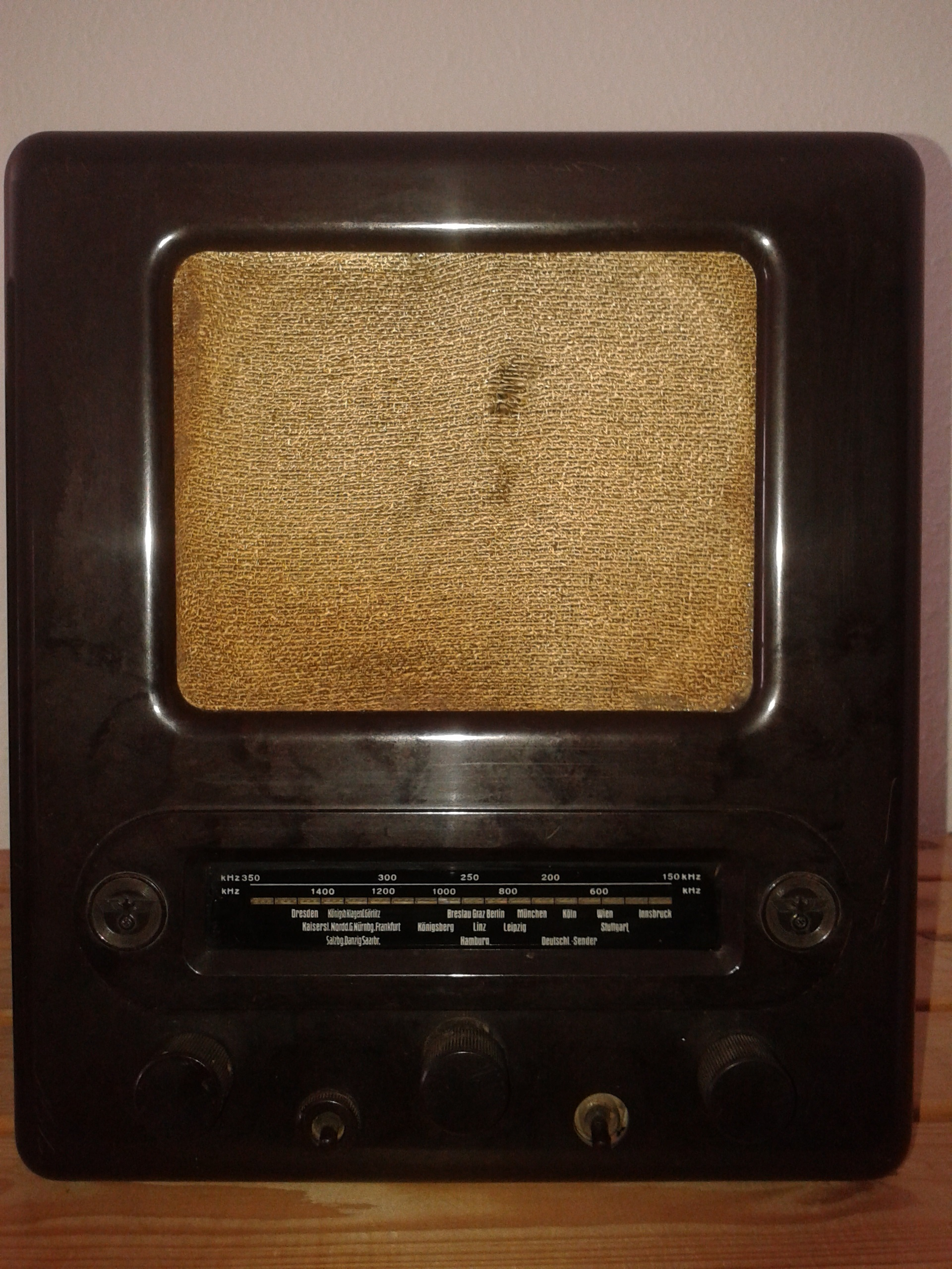 Volksempfänger VE301 dyn, 1938